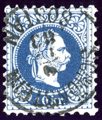 Austrian KK stamp, 10 kr issue 1874, cancelled SCHÖNSTEIN, Styria province, now Šoštanj (Slovenia).